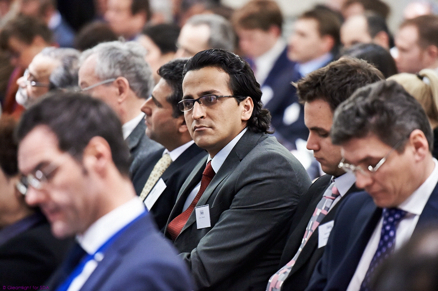 Dr. Mohammad Shafiq Hamdam During a Conference on Afghanistan in Brussels